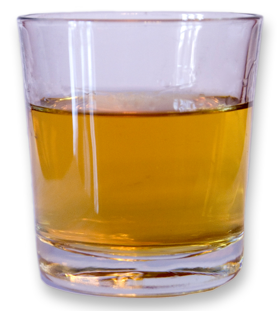 A glass of whisky.